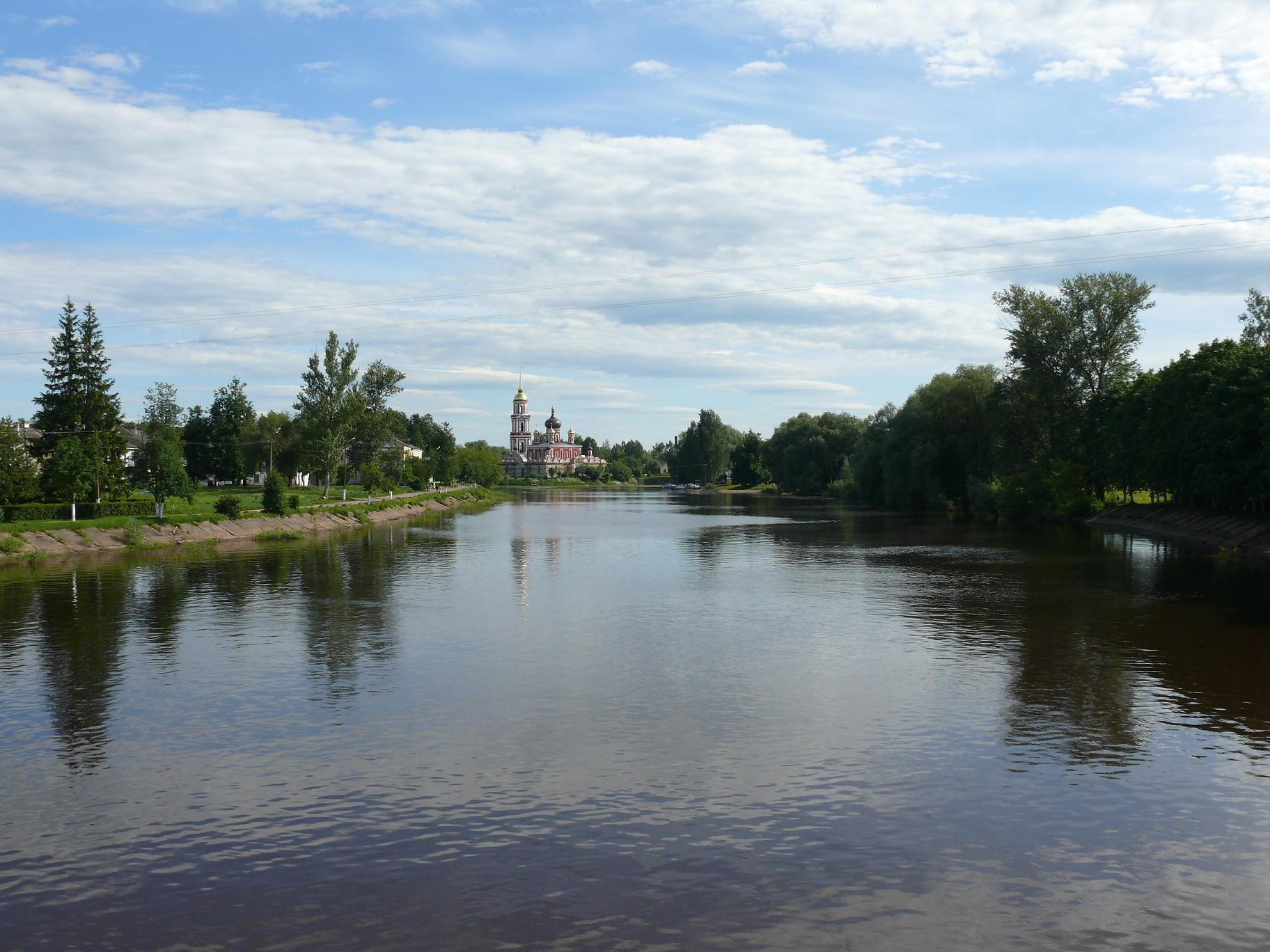 Polist river in Staraya Russa. Novgorod oblast, Russia